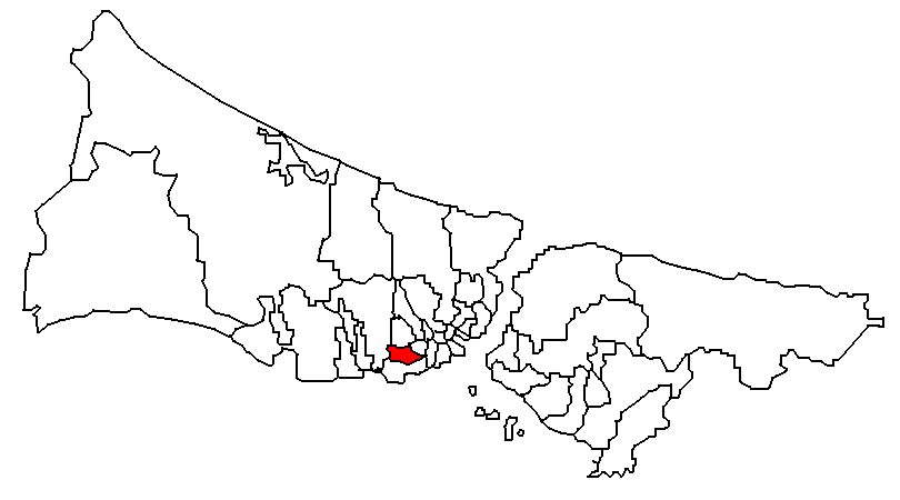 Location of the district of Bahcelievler on the map of Istanbul